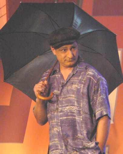 Bulgarian actor Hristo Gurbov; during the recording of tv show "The Comedians"